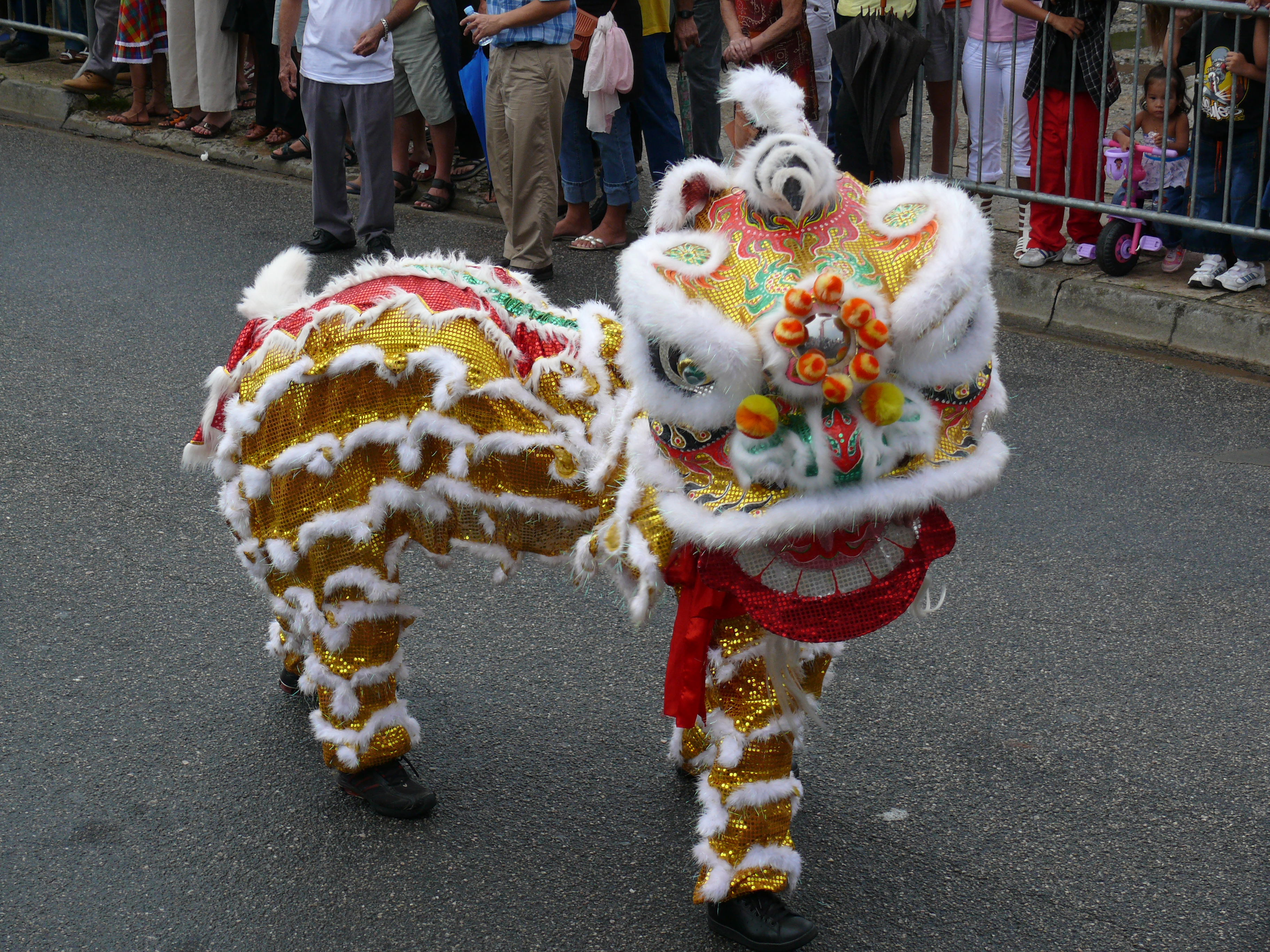 Small Chinese dragon at Kourou's Carnival, 2007.